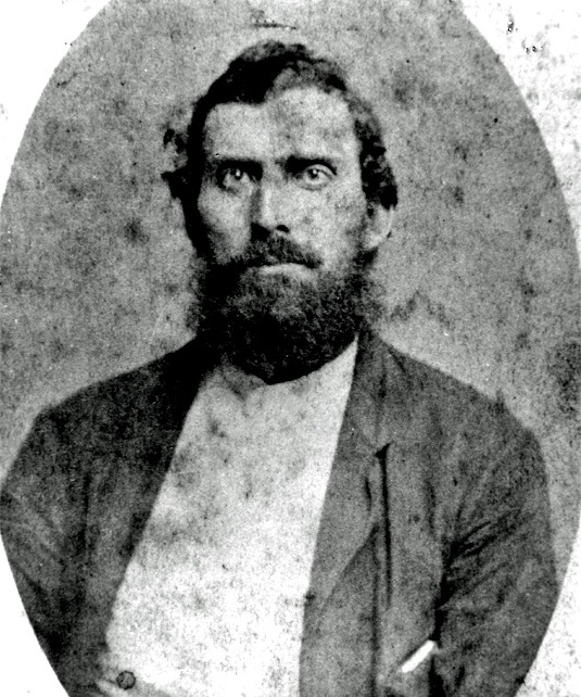 Photograph of Newton Knight (1837–1922), an American Civil War-era anti-Confederate guerilla from Mississippi.